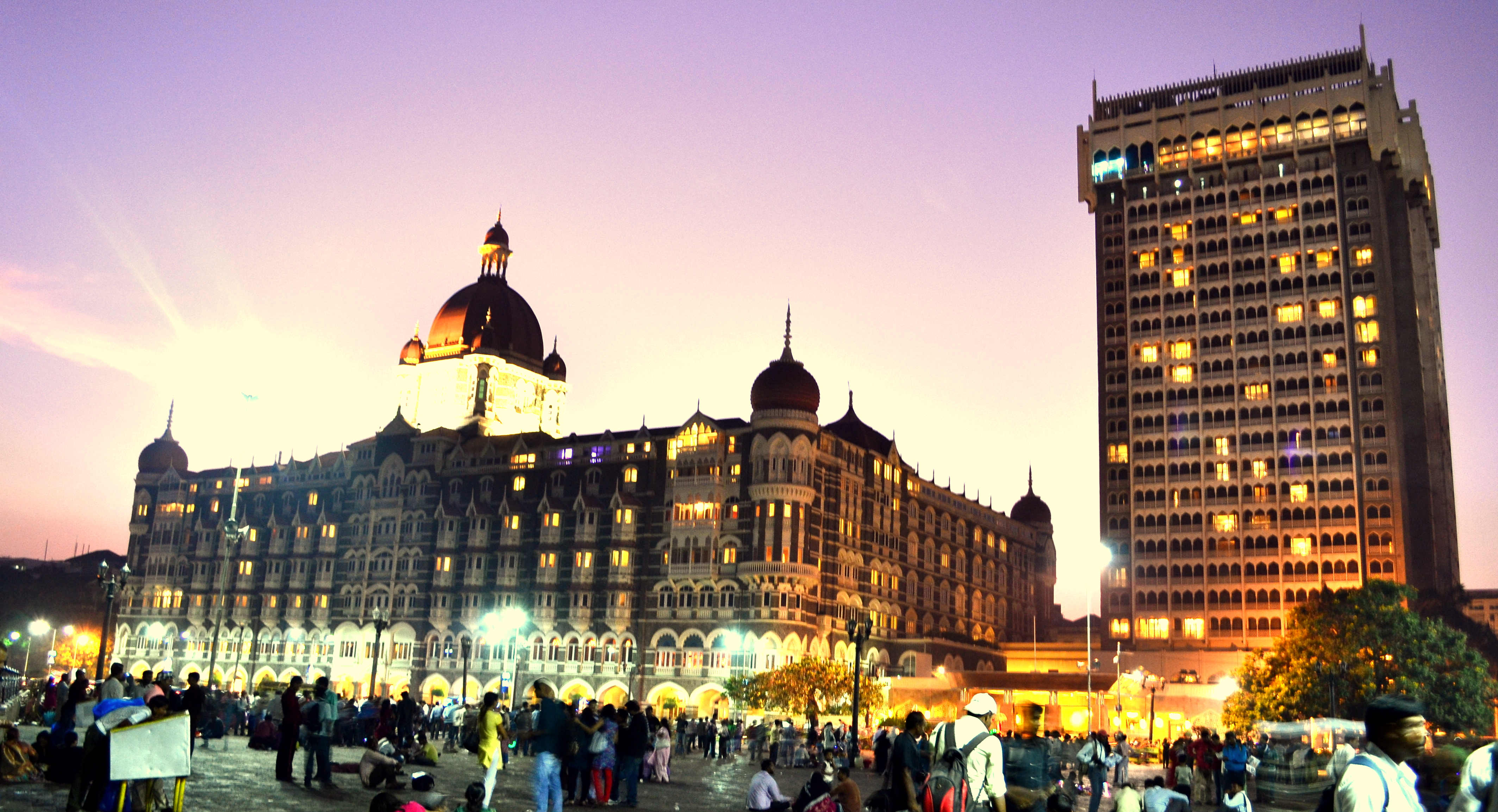 Taj Mahal Palace & Tower at night. Photographed using Nikon D3100.